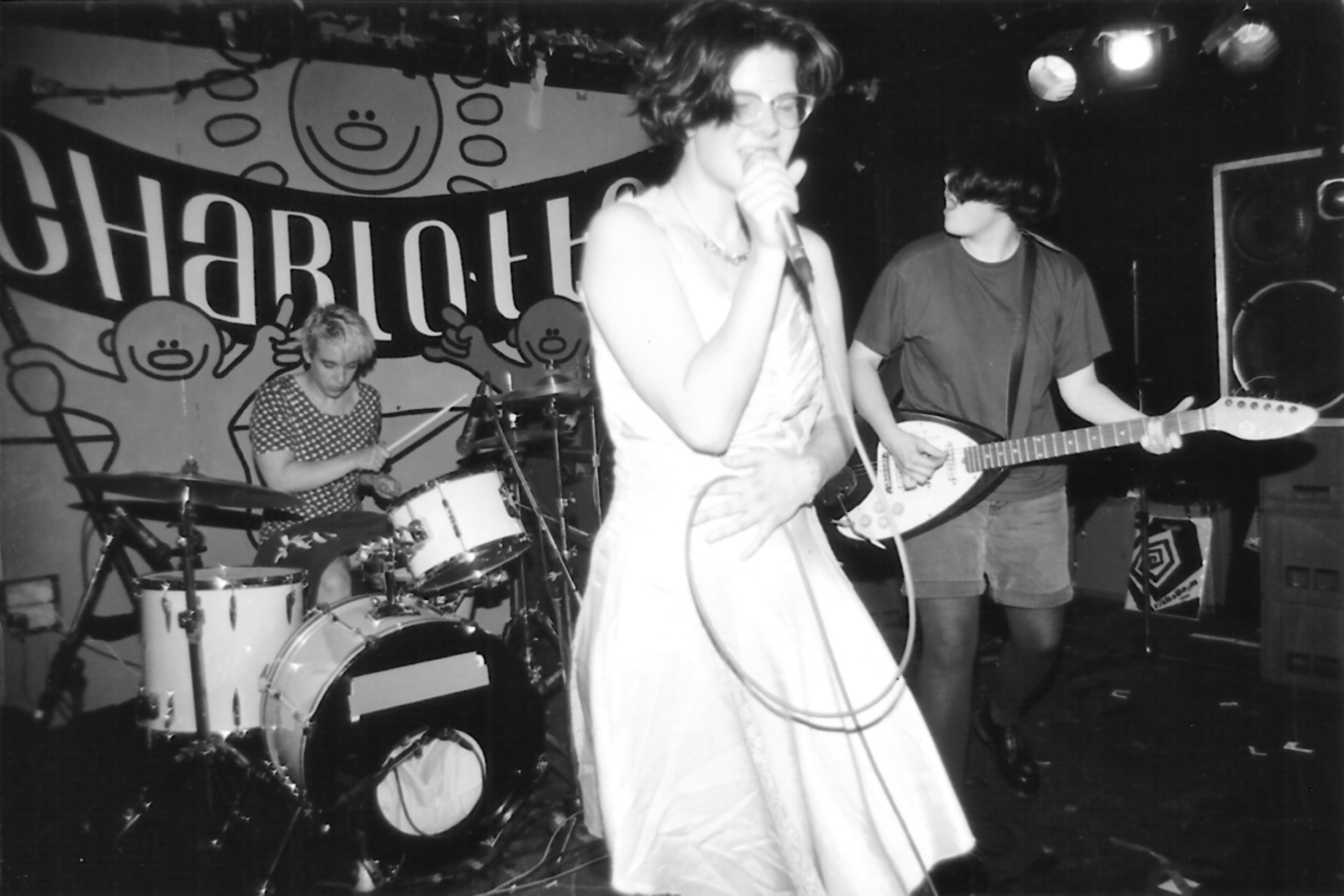 The punk/riot grrrl band Bratmobile at The Charlotte in Leicester, England in 1994.